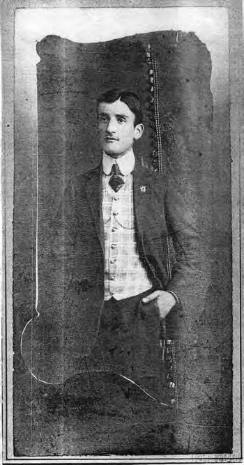 Sterie Petraşincu, aromanian activist